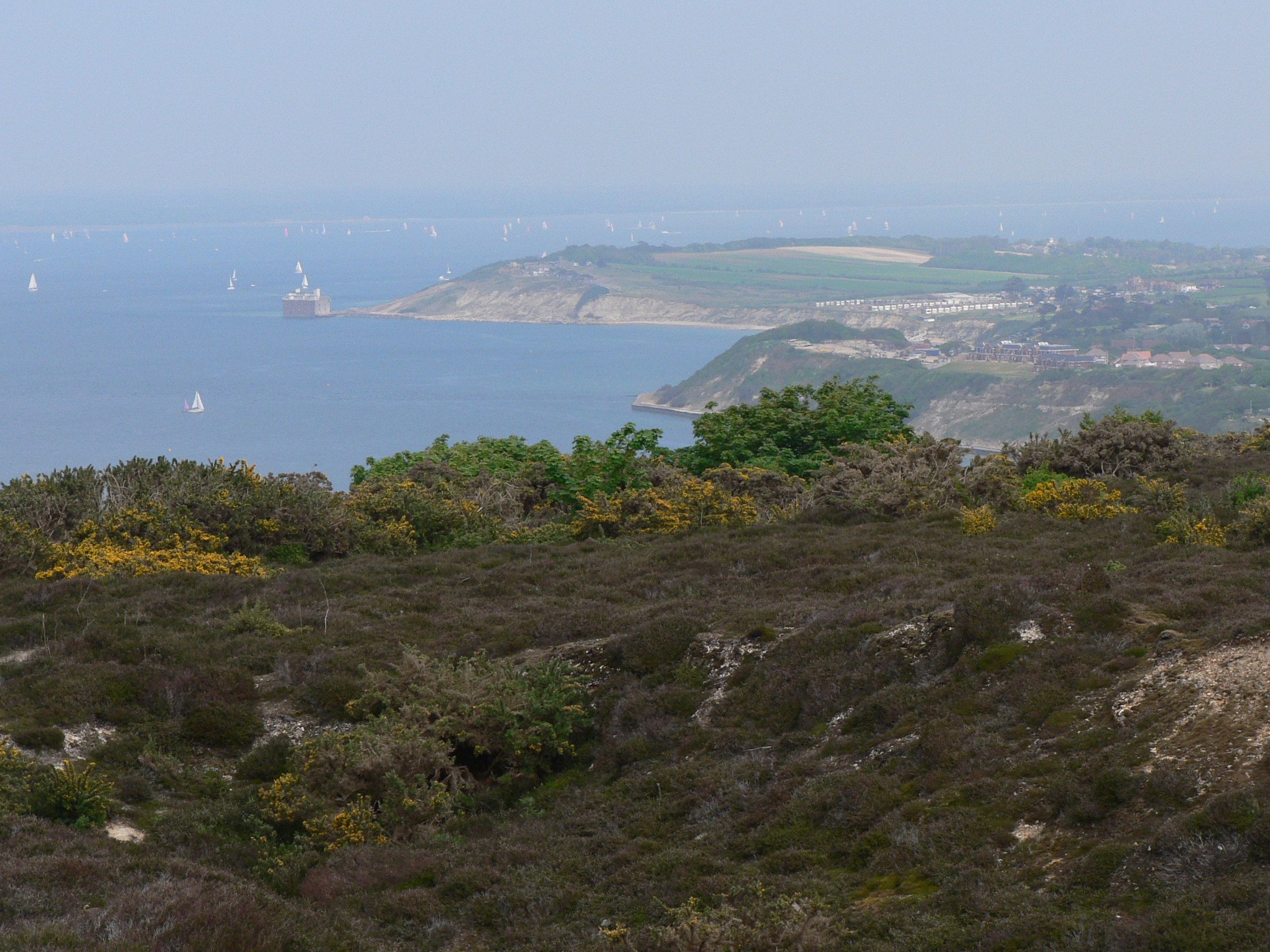 Totland Bay from Headon Warren